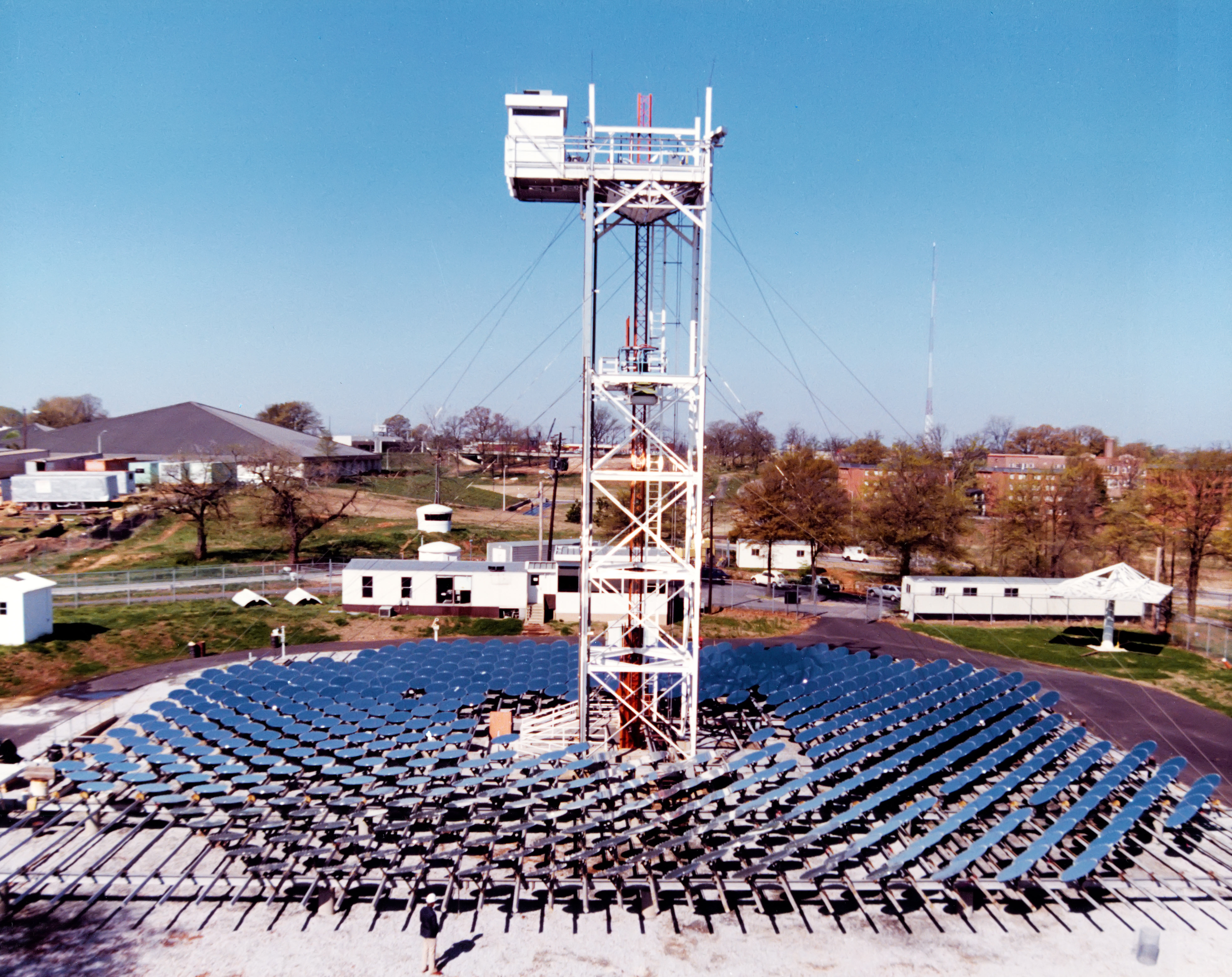 The Advanced Components Test Facility was a 325 kW thermal solar furnace operated by EES for the U.S. Department of Energy, 1979